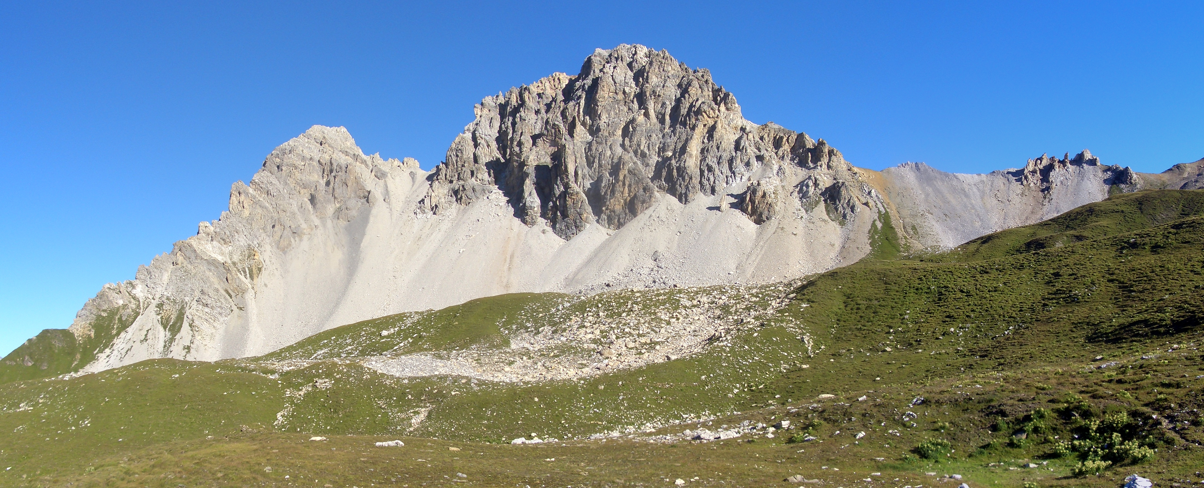 Piz Grisch from Pass da Schmorras, Ferrera, Grison, Switzerland